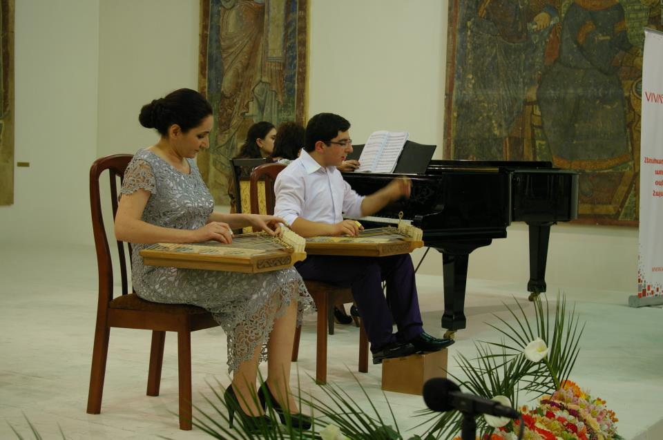 Professor Tsovinar Hovhannisyan With Narek Kazazyan at concert